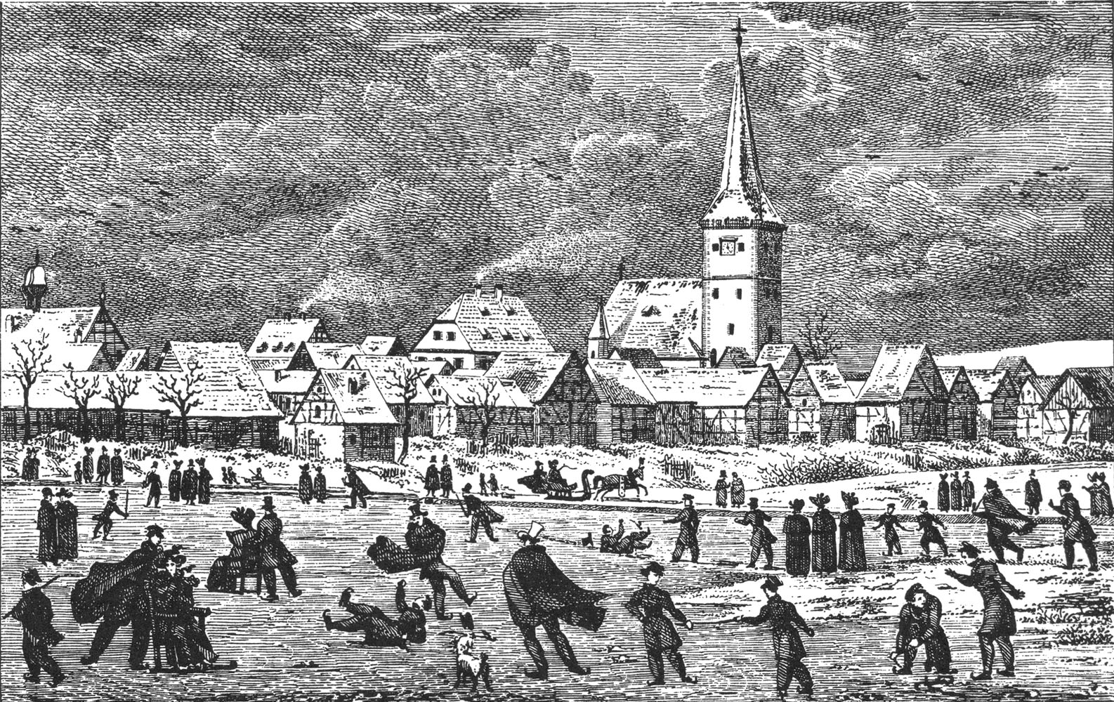 View at Böckingen and the frozen Böckingen's Lake (lithography of 1835).